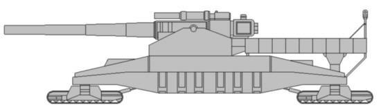 Landkreuzer P. 1500 Monster